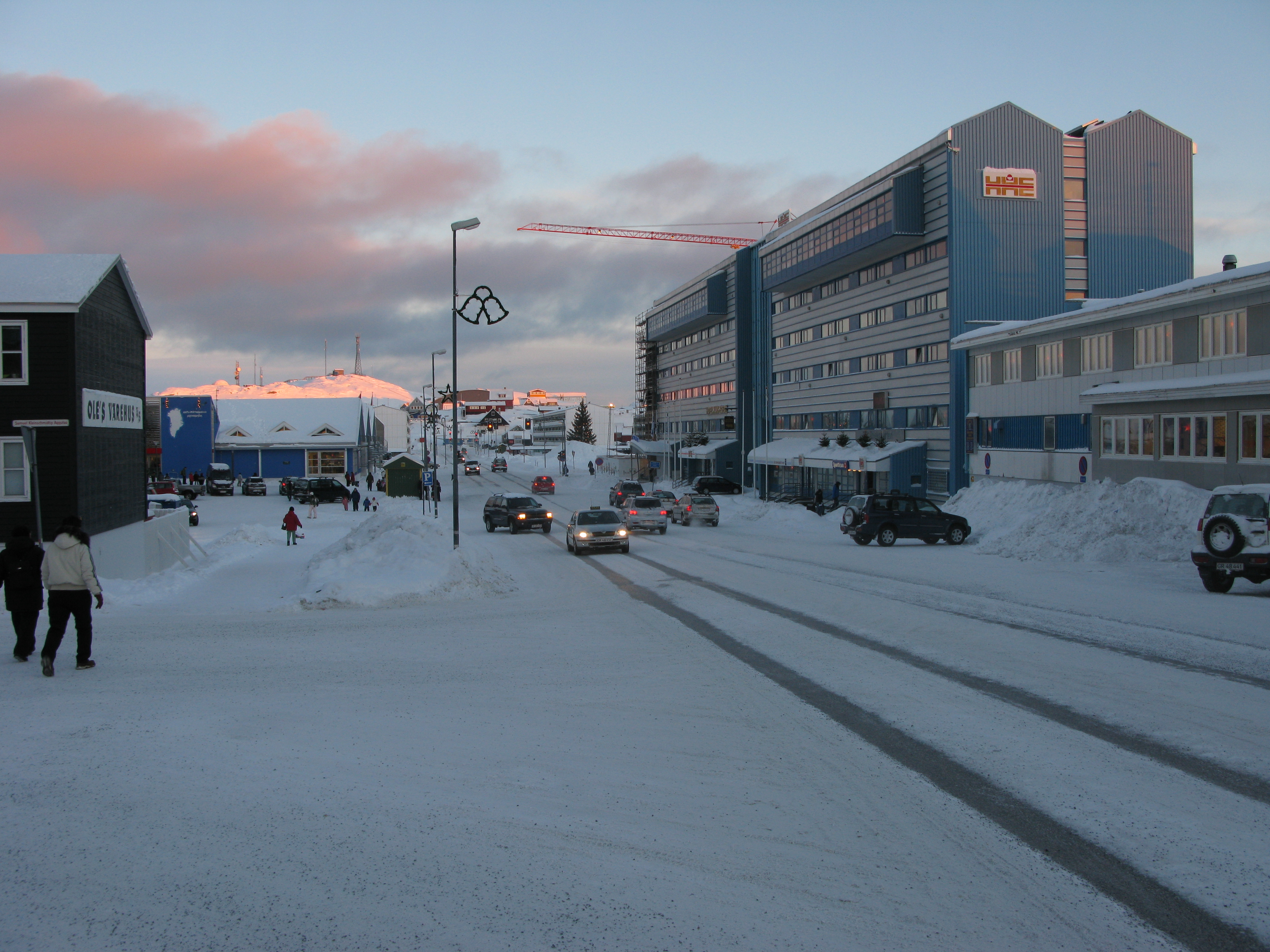 Nuuk's main road Aqqusinersuaq with Hotel Hans Egede on the right.